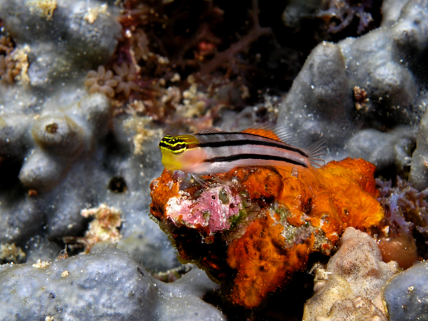 Coral guard blenny (Ecsenius bathi) from Komodo National Park